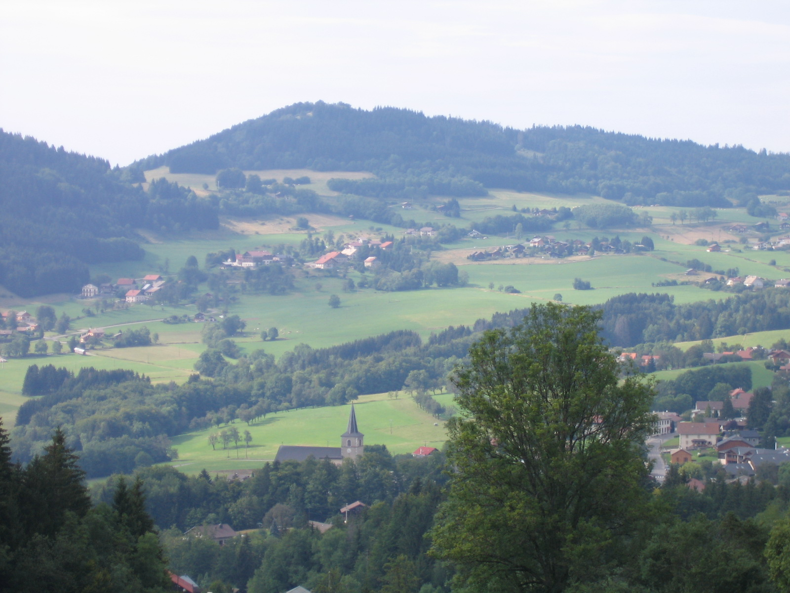 Habere Poche, Haute Savoie, France